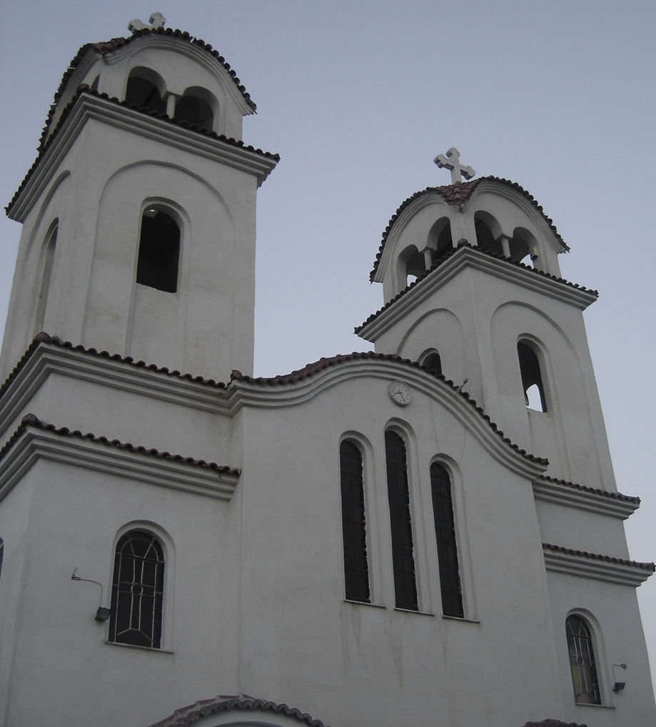 Church of Megali Taxiarhes in Paleo Keramidi.